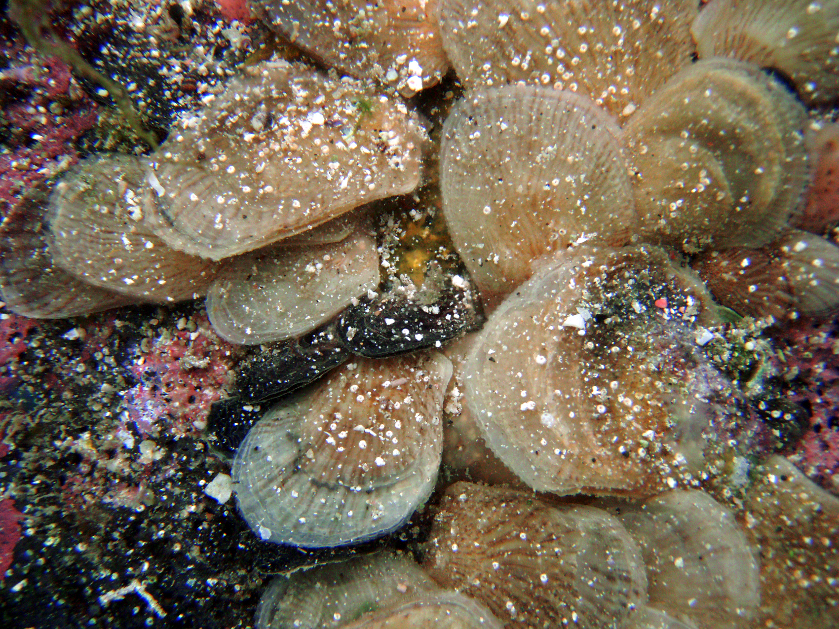 The shells in Tidepool in Kona, Hawaii